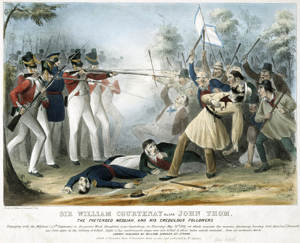 Soldiers of the 45th Regiment fire upon "Sir William Courtney" (real name John Thom) and his followers after they killed Lieutenant Bennett